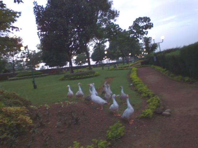 Geese in the park